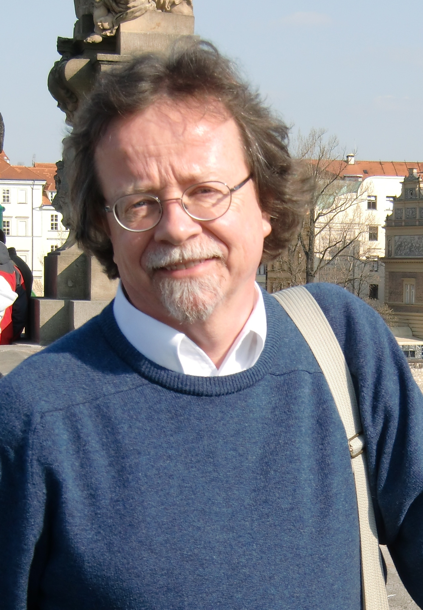 Prof. Dr. Christoph Bode